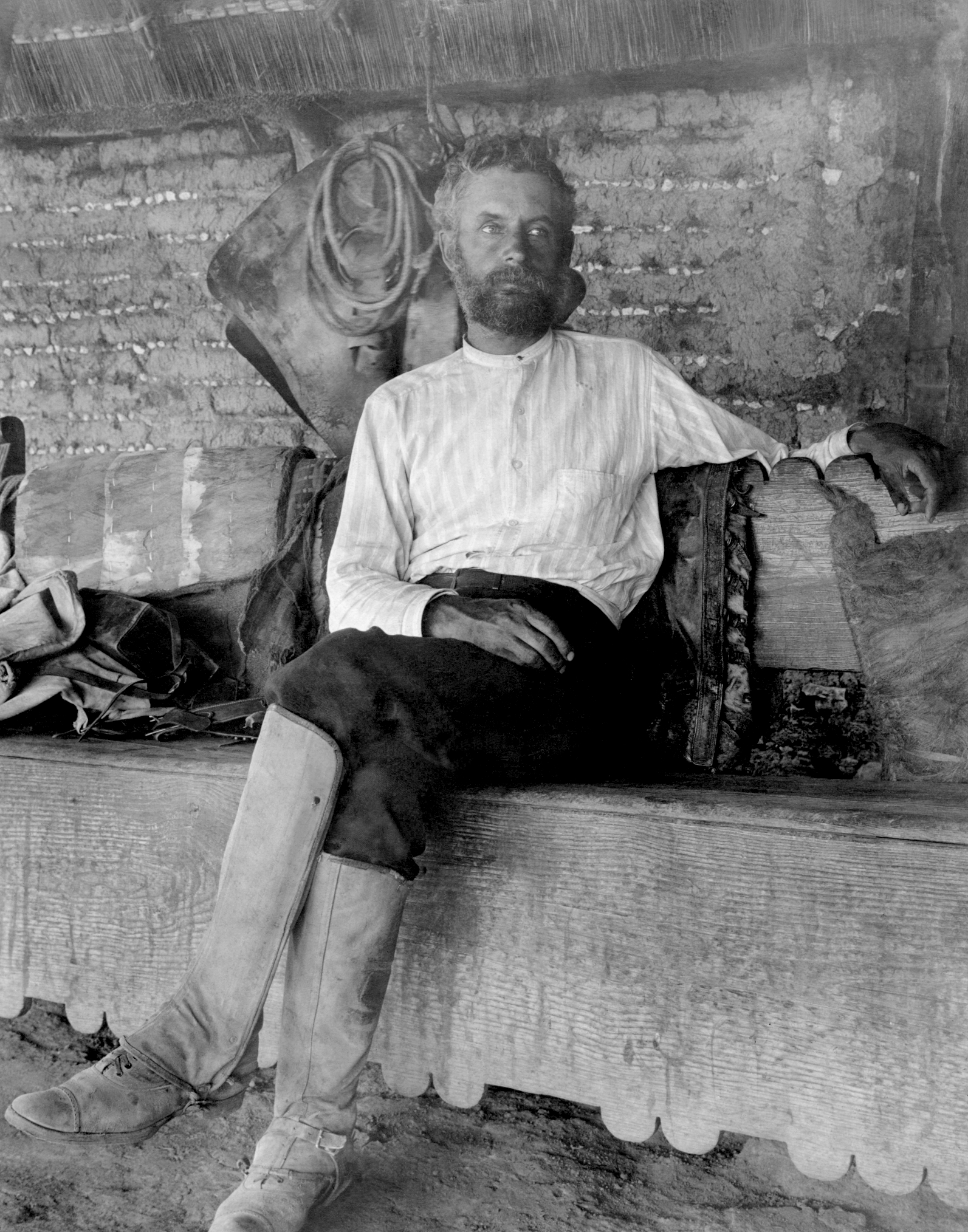 Edward William Nelson